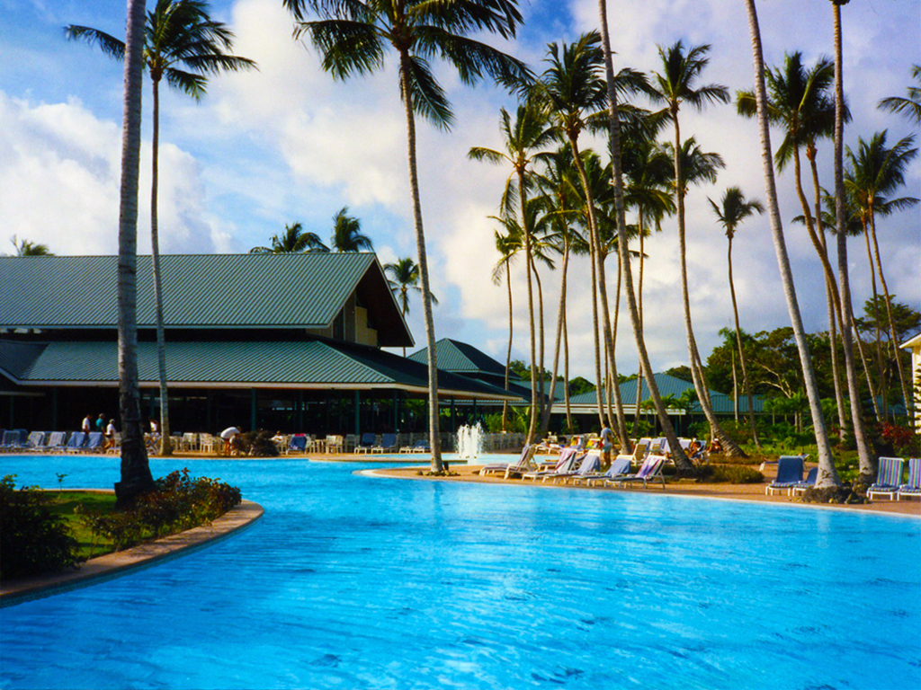 Hotel Barcelo Bávaro Palace en Bávaro, República Dominicana.